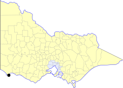 Location of the former City of Portland within Victoria.